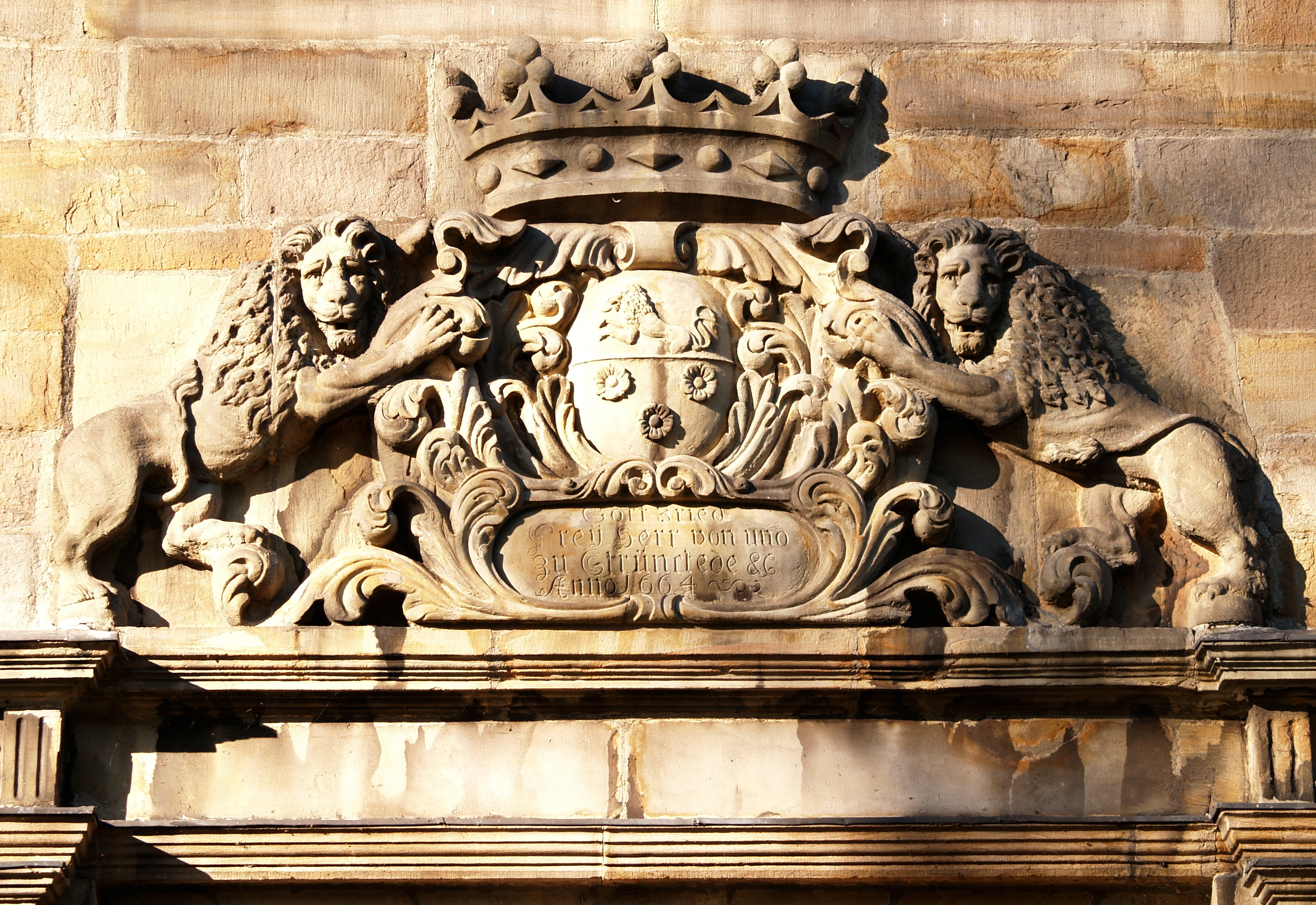 Coat of arms above the gate to the Strünkede Castle in Germany.